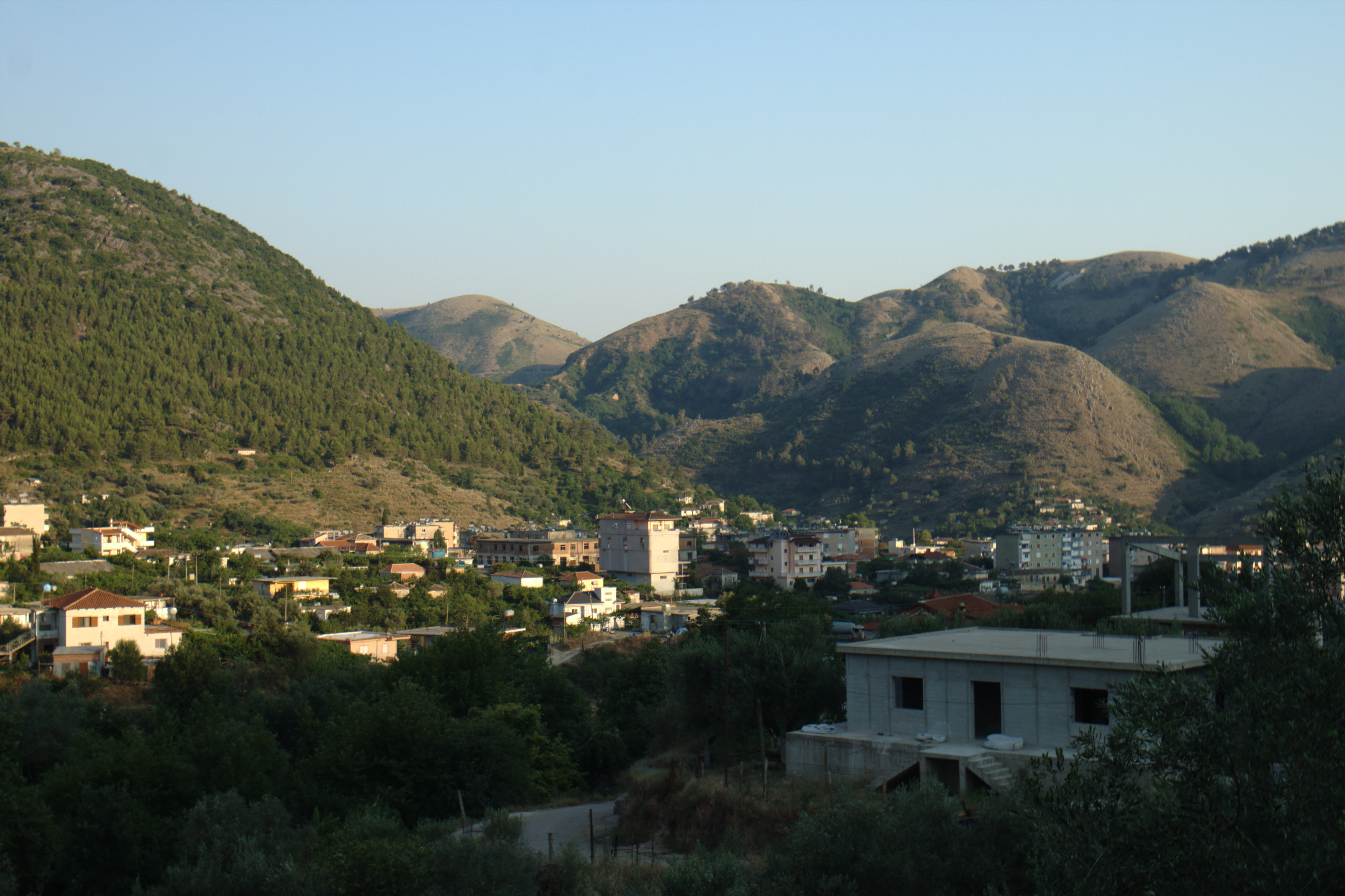 View of the town of Delvina in southern Albania